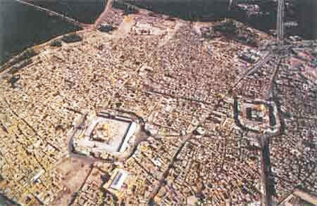 Karbala City in 1970